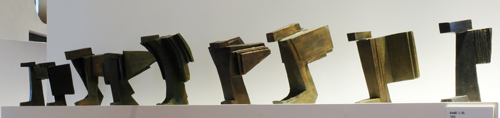 Sculptures by Jan Koblasa, Angels, bronze